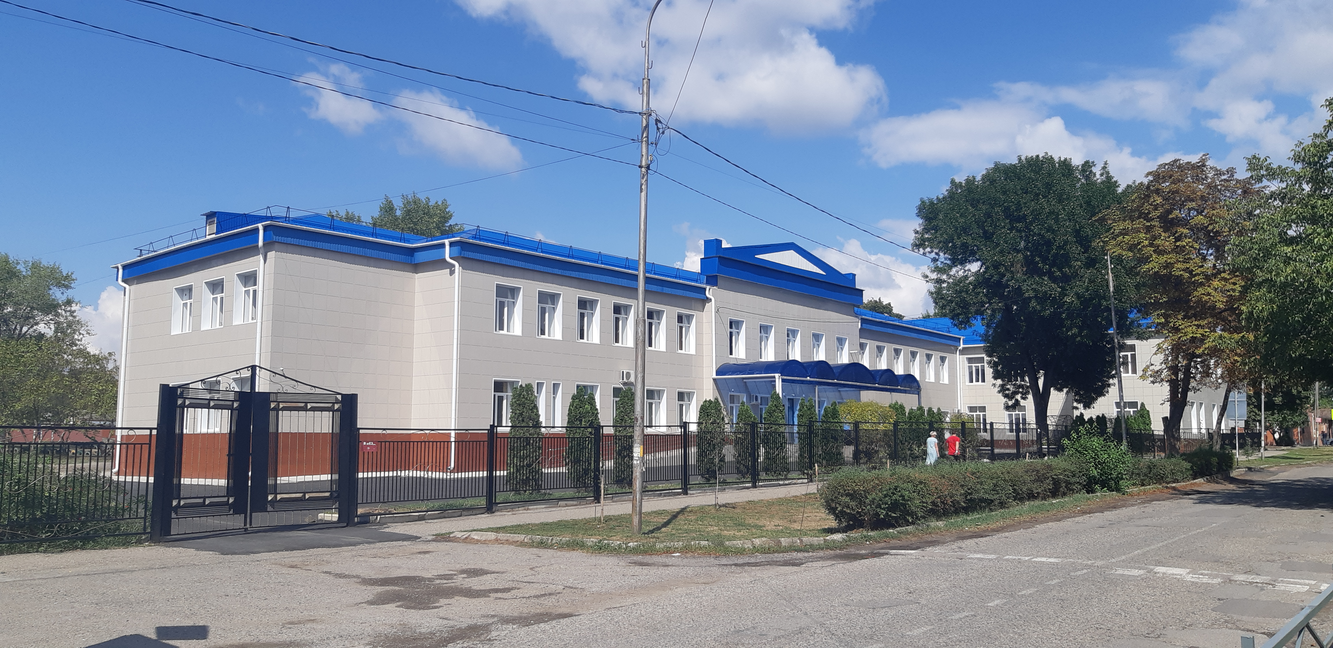 Grammar school №2 Georgievsk